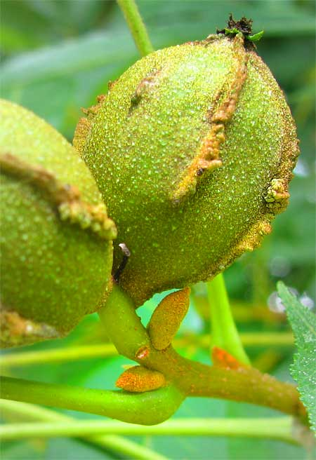 An immature bitternut. Also note the tree's yellow buds.